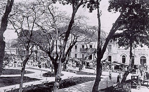 Municipality of Ponce, Puerto Rico's town center in 1900. City Hall can be seen behind the trees.